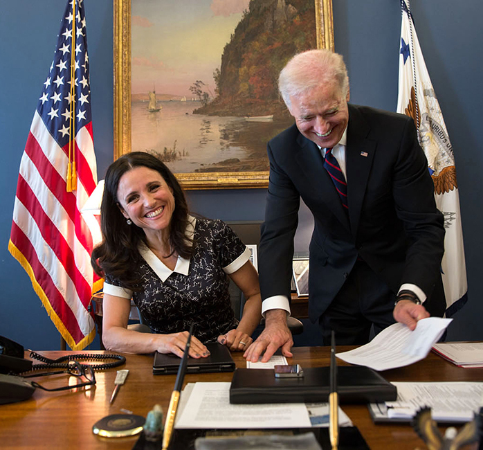 Vice President Joe Biden jokes with Julia Louis-Dreyfus of the TV show, “Veep,” as she sits at his desk in the Vice President's West Wing office at the White House, April 12, 2013. (Official White House Photo by Lawrence Jackson)